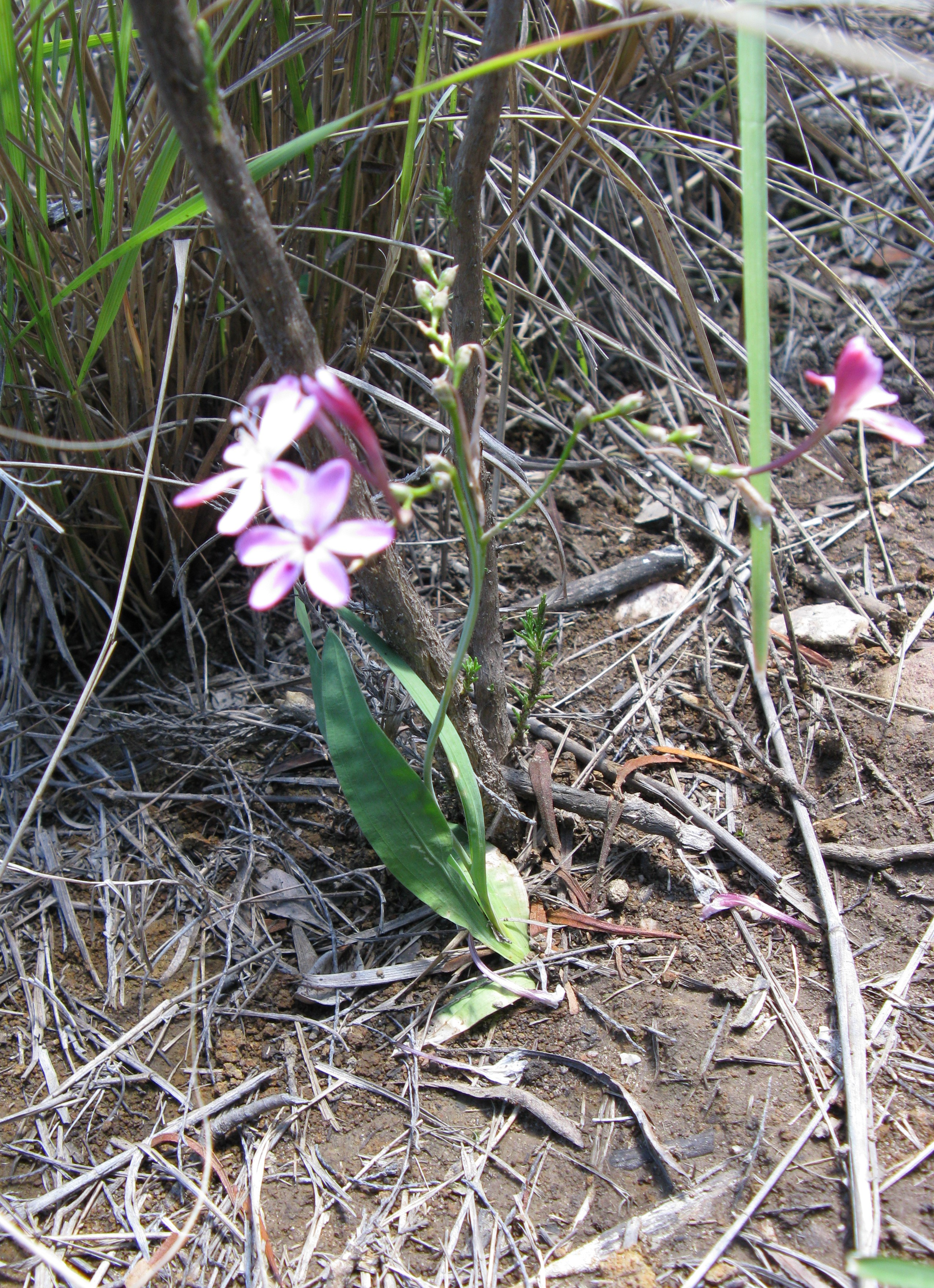 Lapeirousia species in flower, showing habit and elongated perianth tube (in this species tube length modest for the genus ).